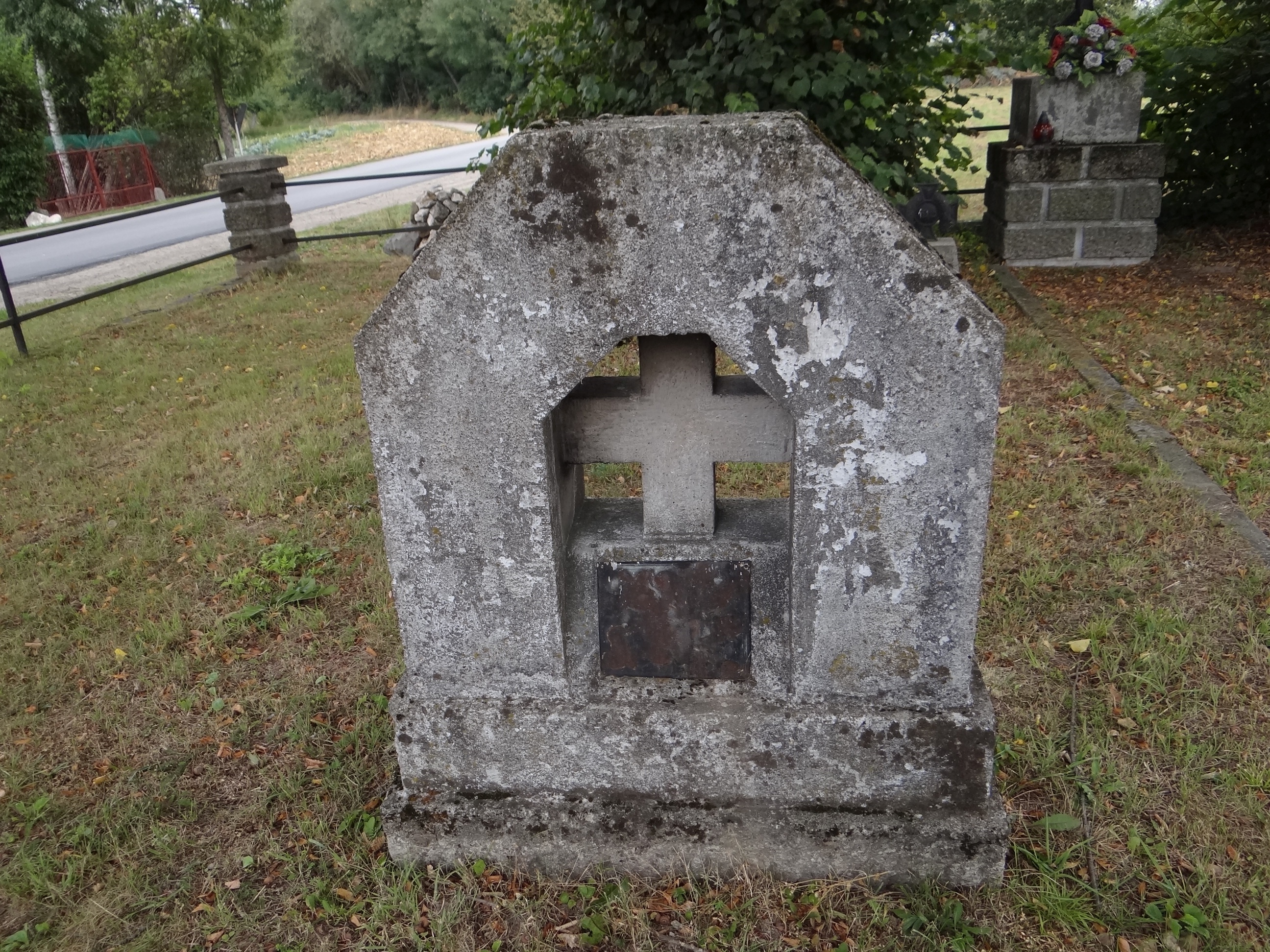 World War I Cemetery nr 210 in Łęka Siedlecka